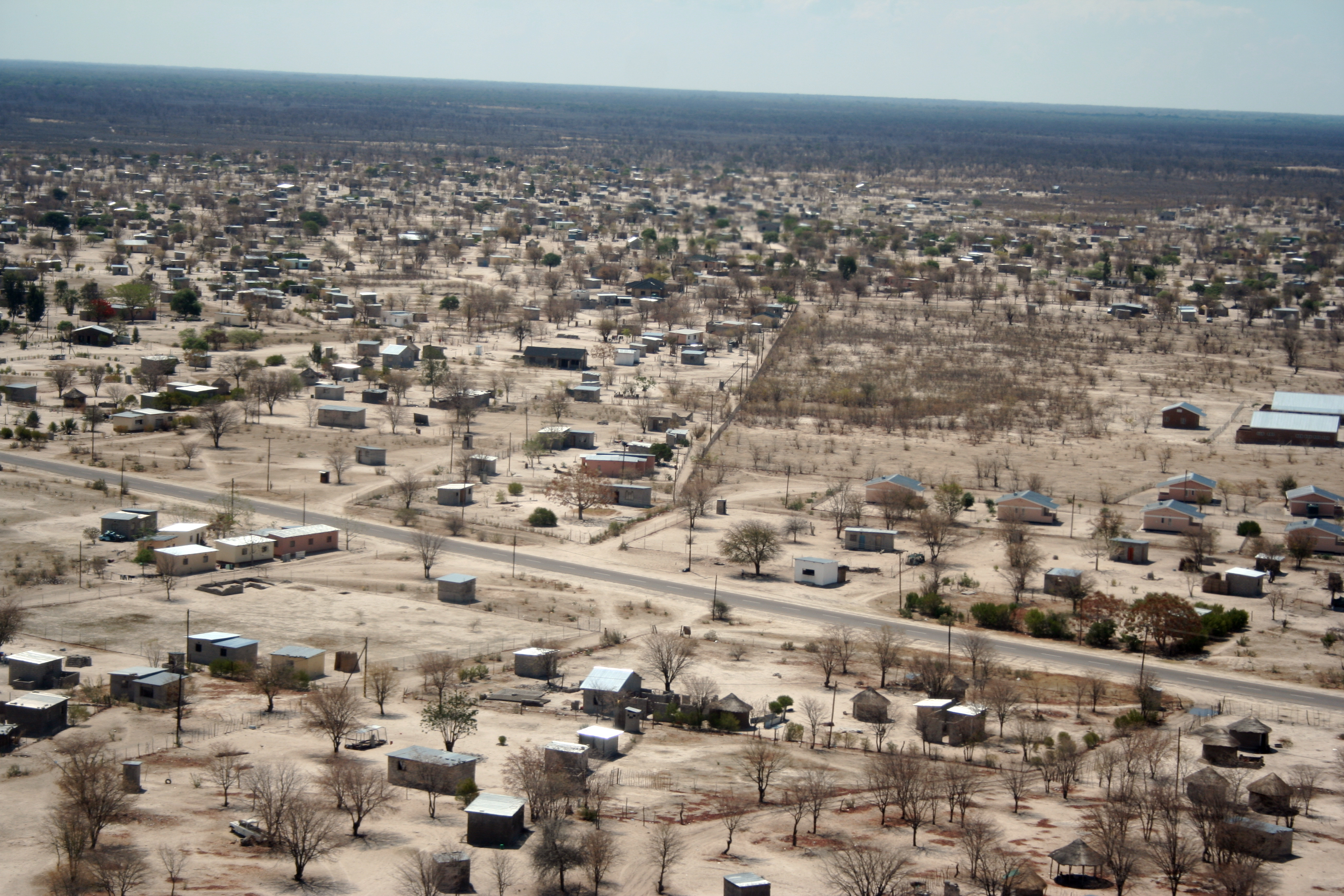 Aerial view of Maun, Botswana